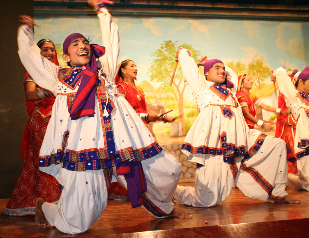 Khajuraho is a favourite spot to witness indian dancing. A whirlwind of colour and energy is unleashed every day at the Kandariya Art & Culture Centre, performing dances from all over India.